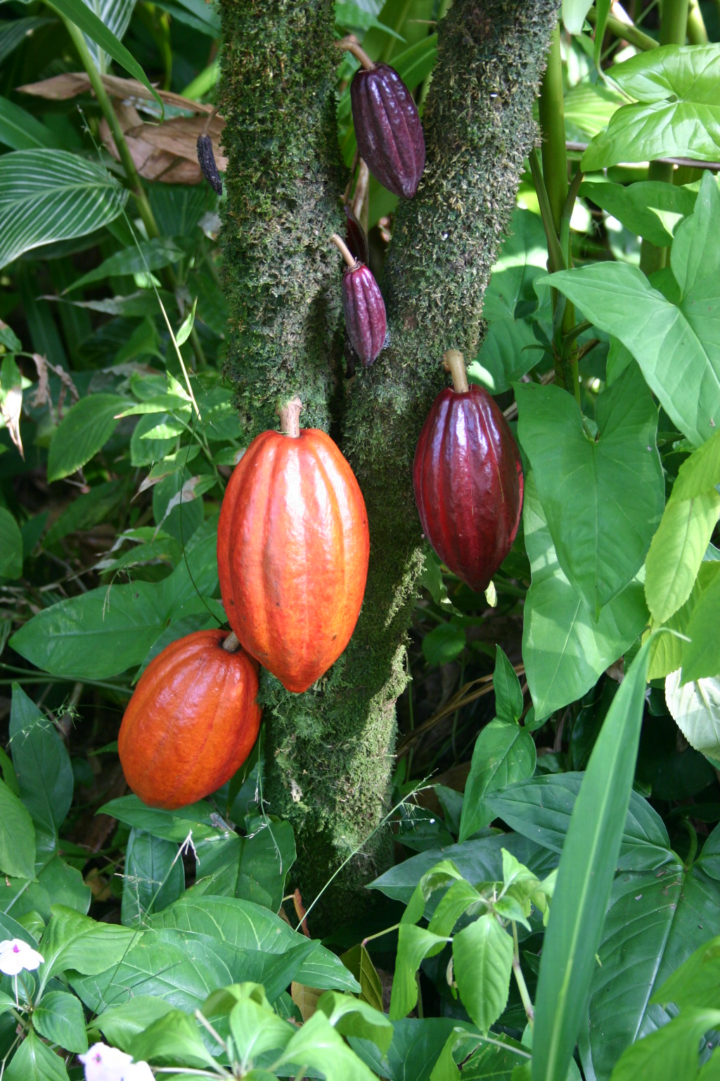 A cacao tree with fruit pods in various stages of ripening. Taken on the Big Island (Hawaii) in the botanical gardens.